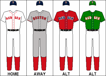 Red Sox Uniforms